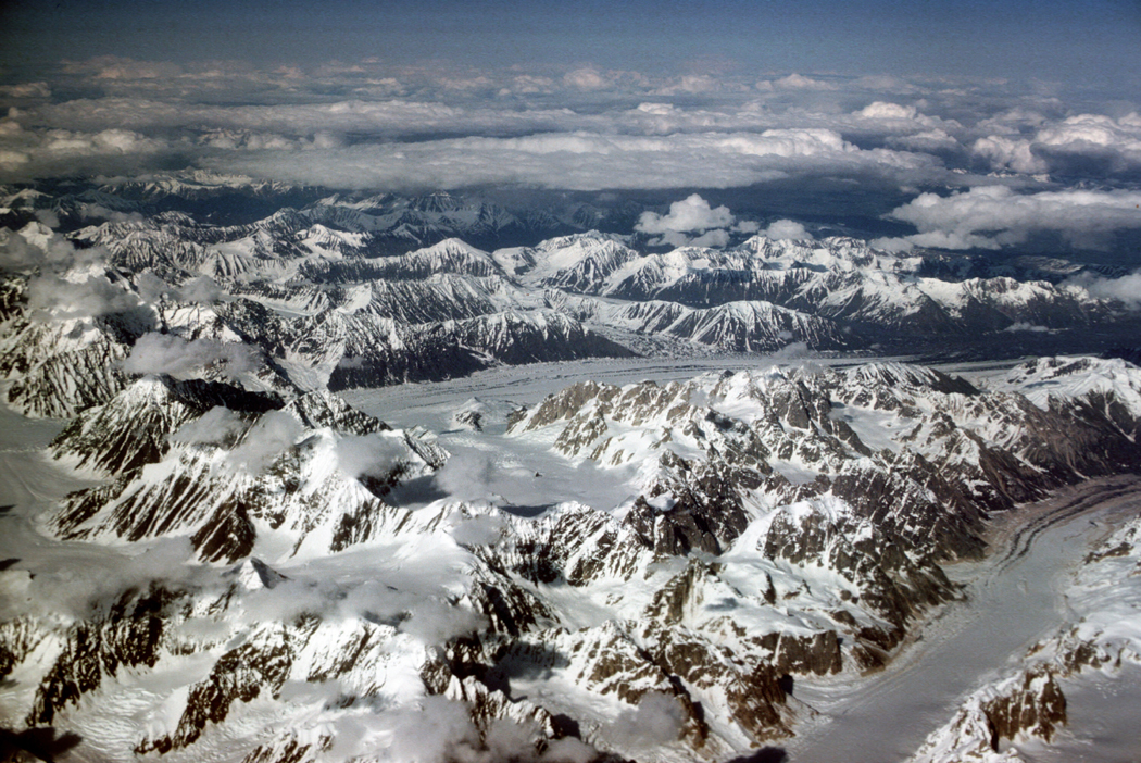 Aerial view of Alaska Range Mountain Peaks [1]